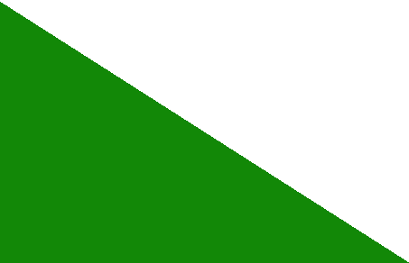 Flag of Jaora State (1865 - 1895)